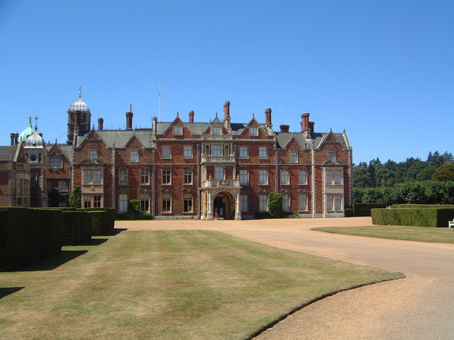 Sandringham House in Sandringham, Norfolk, western aspect